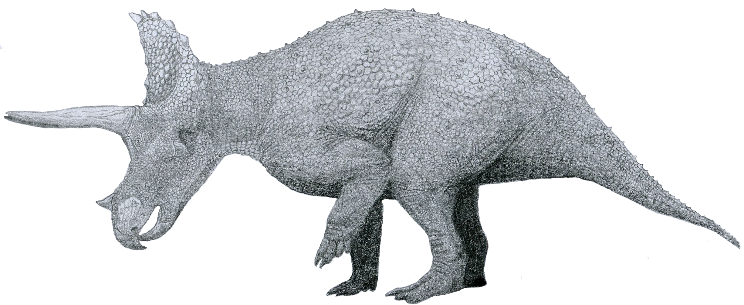 A subadult Triceratops horridus. Illustration by Tom Parker .